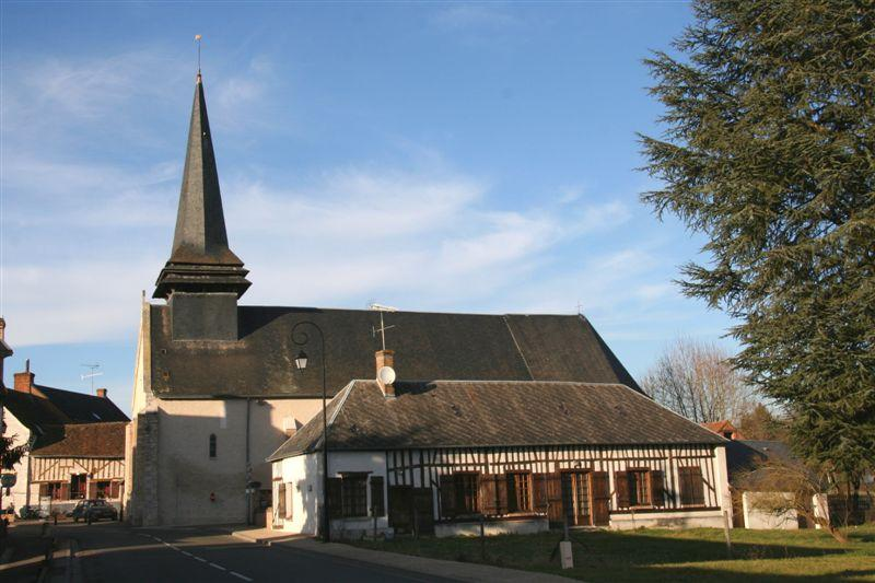 Eglise Ligny-le-Ribault